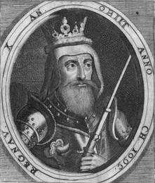 King Oluf Hunger of Denmark